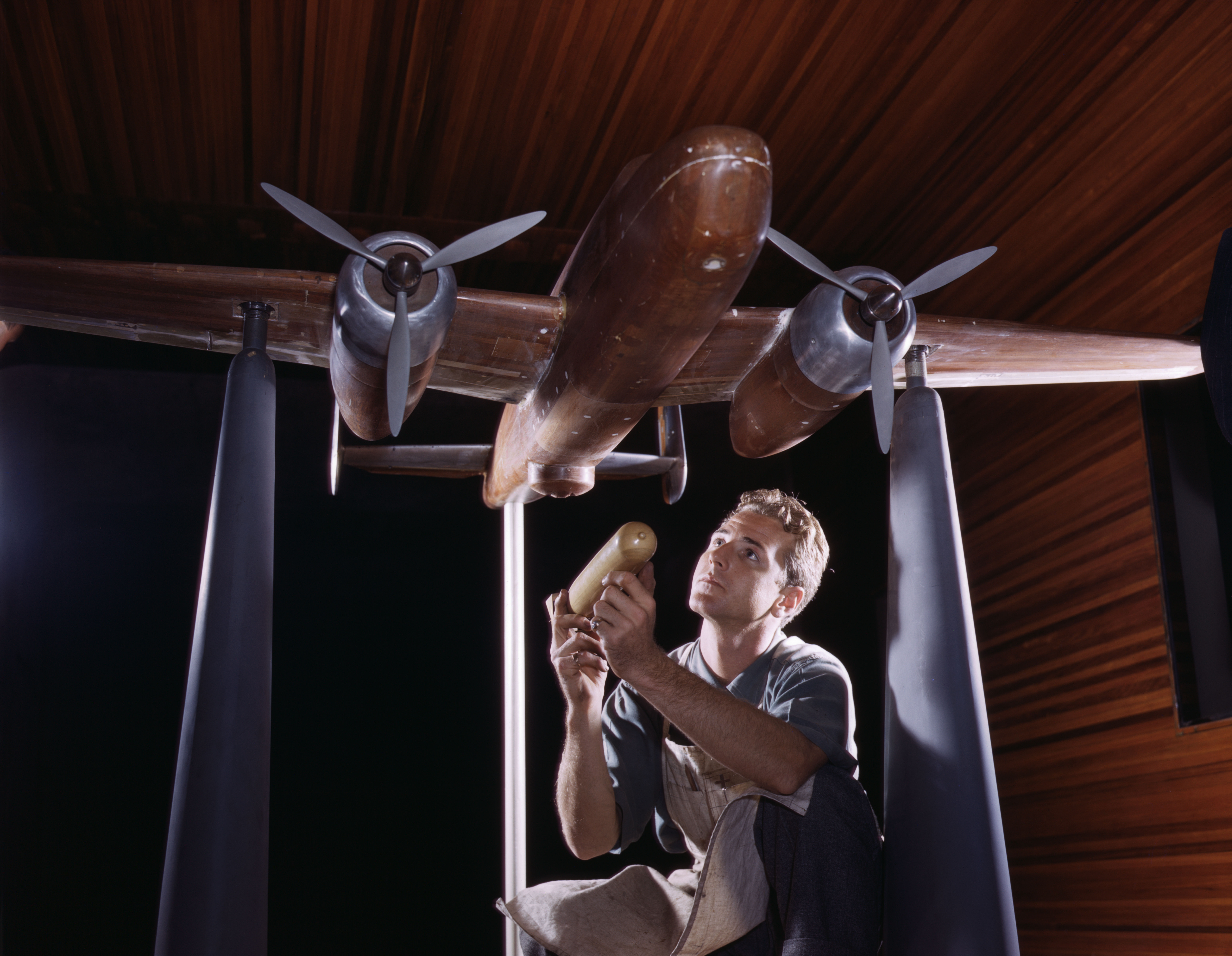 An experimental scale model of the B-25 plane is prepared for wind tunnel tests in the plant of the North American Aviation, Inc, Inglewood, Calif, The model maker holds an exact miniature reproduction of the type of bomb the plane will carry.jpg.